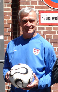 Serbian former goalkeeper